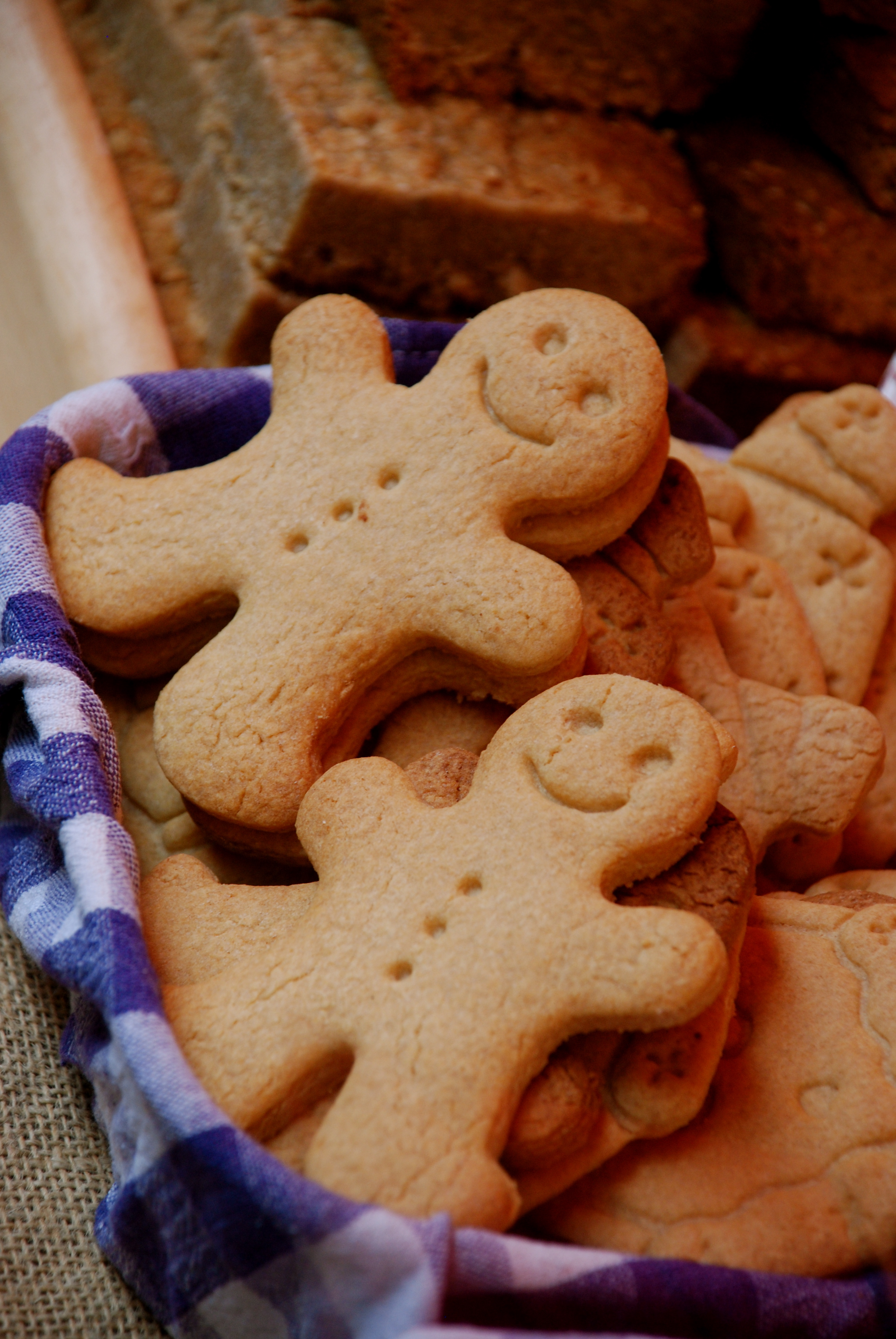 Two gingerbread men in a basket of cookies